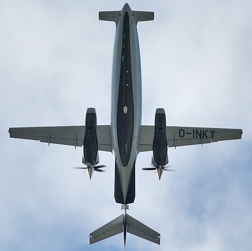 Switzerland, Canton of Zürich, Piaggio P-180 Avanti at Zurich International Airport